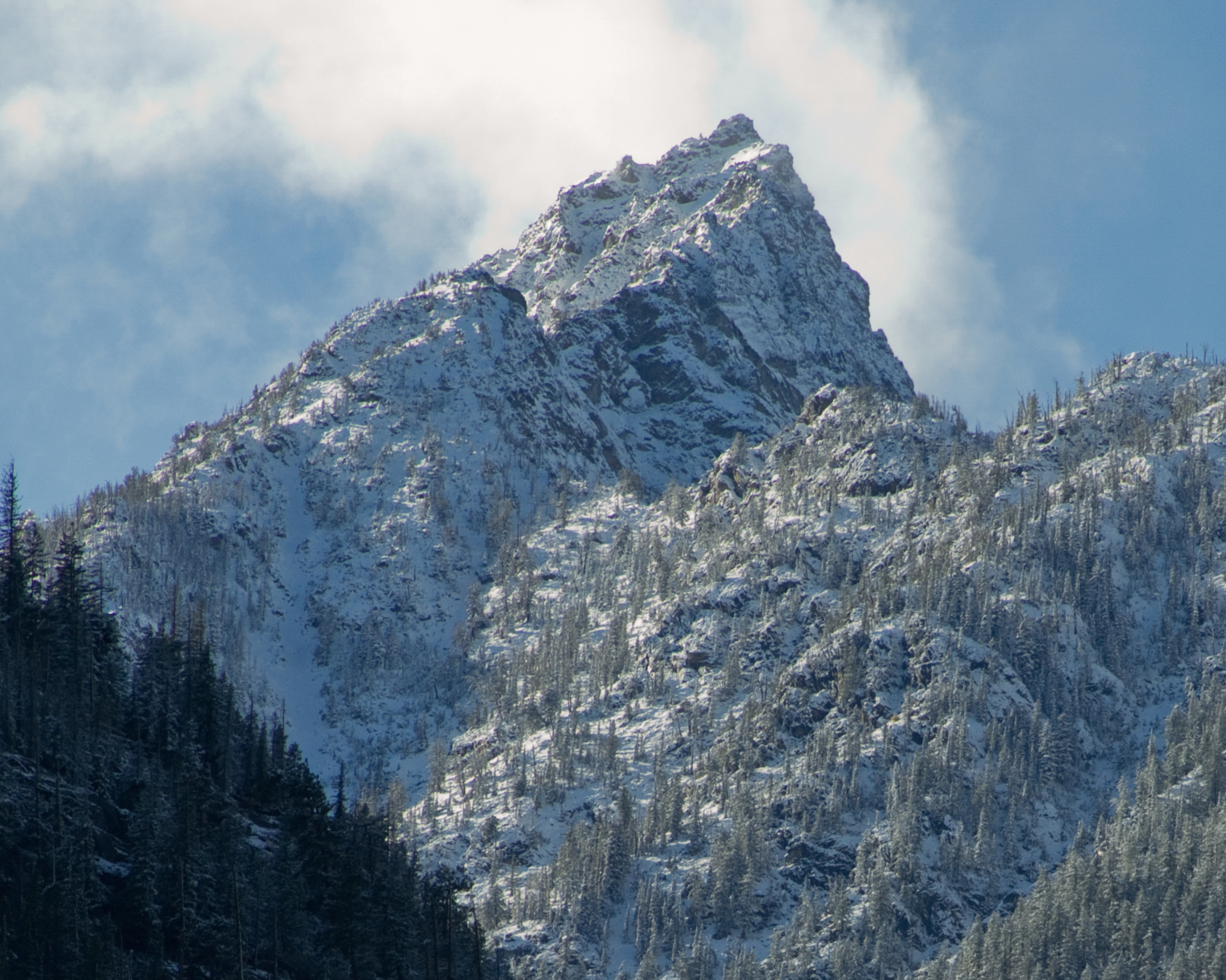 Early fall snow covers Tupshin above the village of Stehekin.